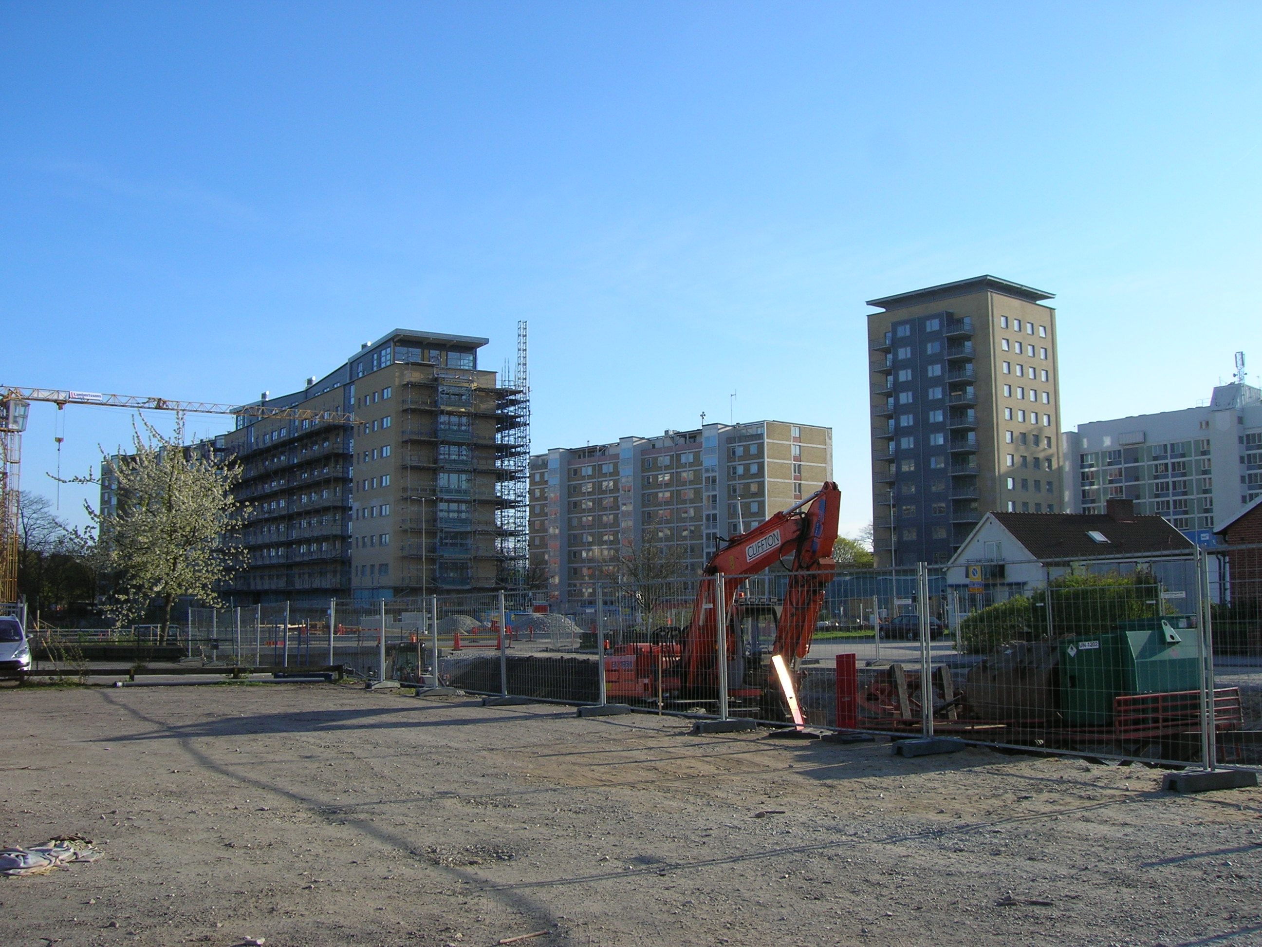 New buildings on Järnåkra in Lund, as seen from Margretedal.